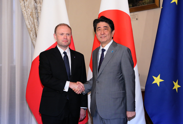 Prime Minister Shinzō Abe and Prime Minister Joseph Muscat shaking hands.